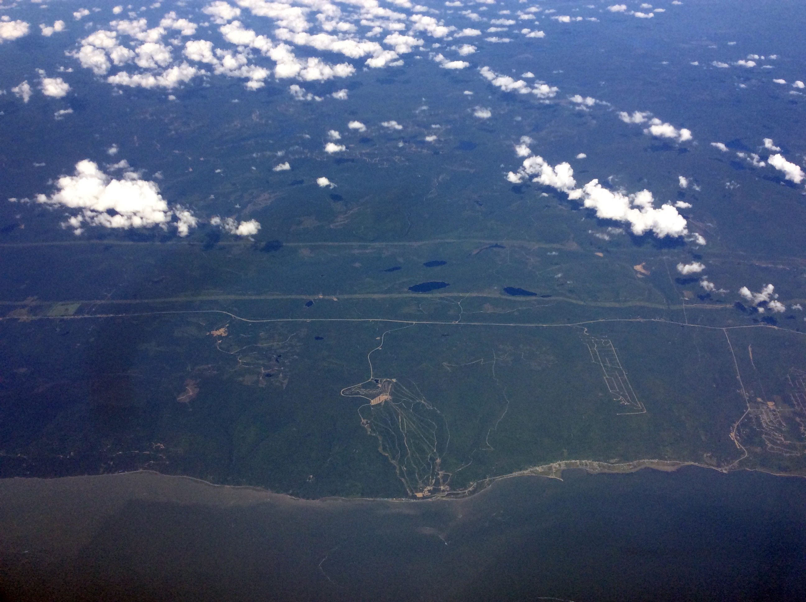 Le Massif ski resort taken from an aircraft showing trails layout and new resort development areas